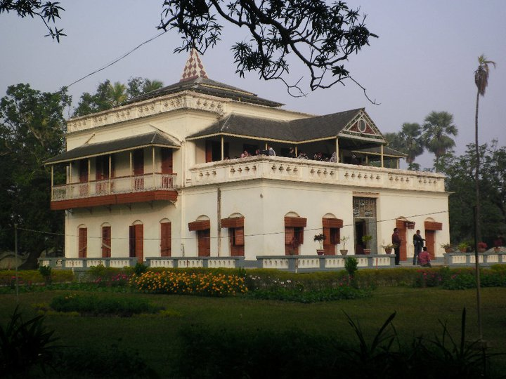 Kuthibari of Rabindranath Tagore in Shelaidaha, Kushtia.